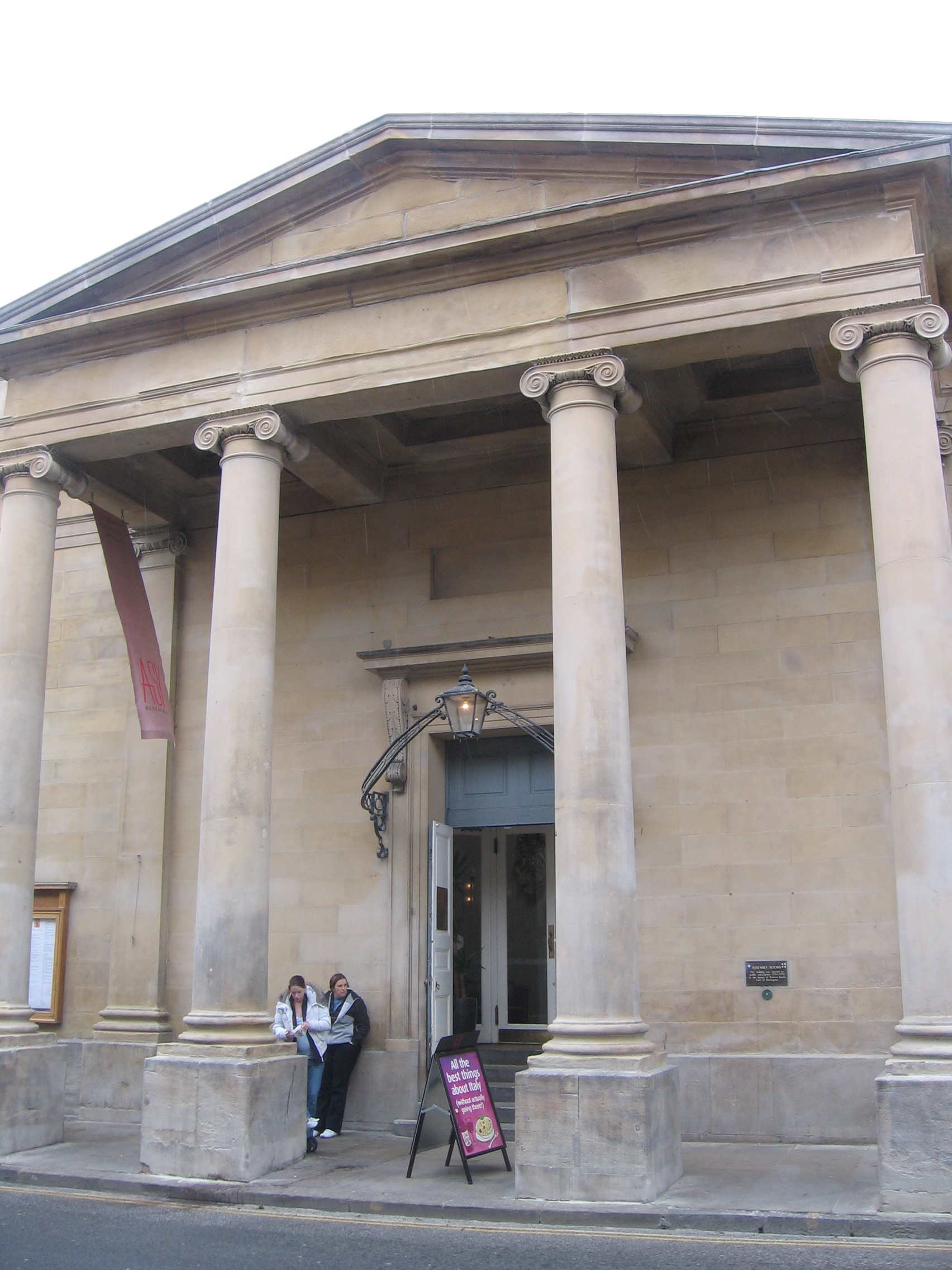 Front of York Assembly Room